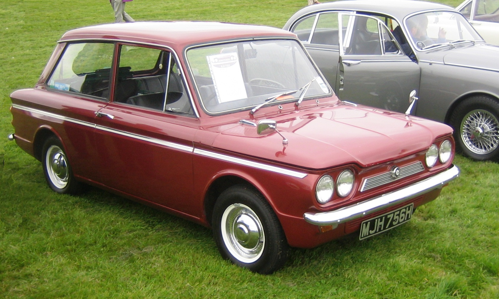 Singer Chamois (ie upmarket Hillman Imp) at Classic Car Show in Hertfordshire